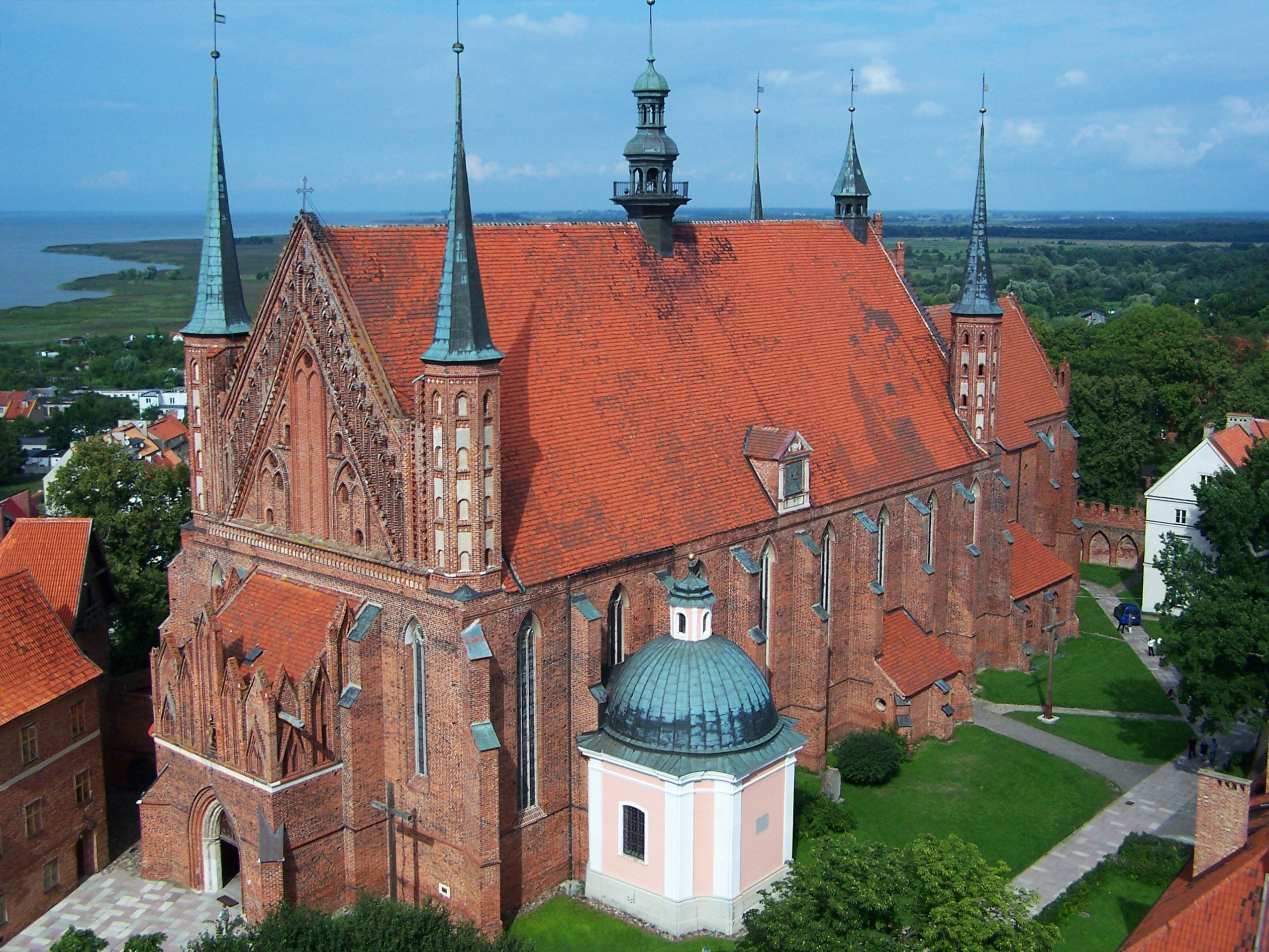 Cathedral in Frombork (Poland).